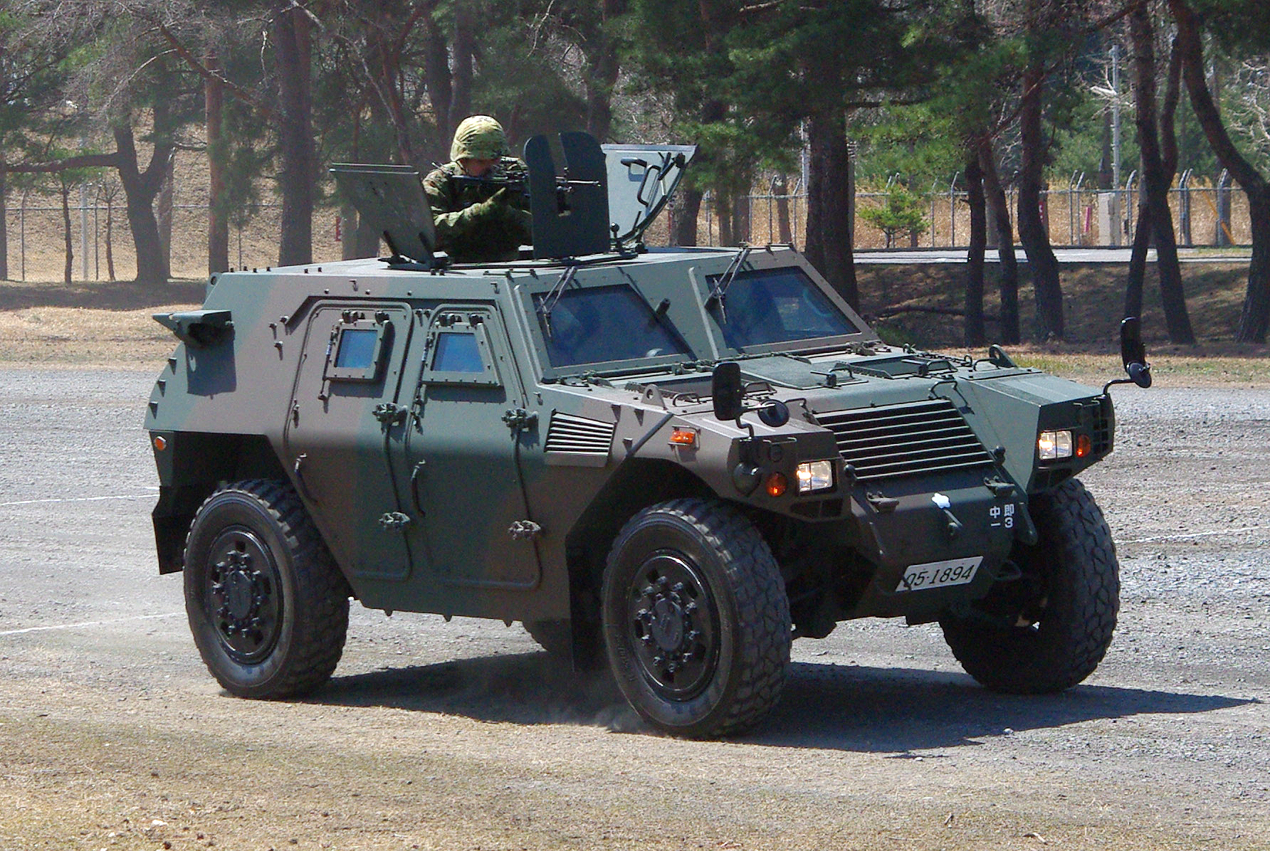 JGSDF Light Armored vehicle,Central Readiness Regiment.Taken by Los688,in Camp Utsunomiya,Japan,at 08-Apr-2012. 軽装甲機動車 中央即応連隊 2012年04月08日、宇都宮駐屯地で撮影。MINIMIを構えている。